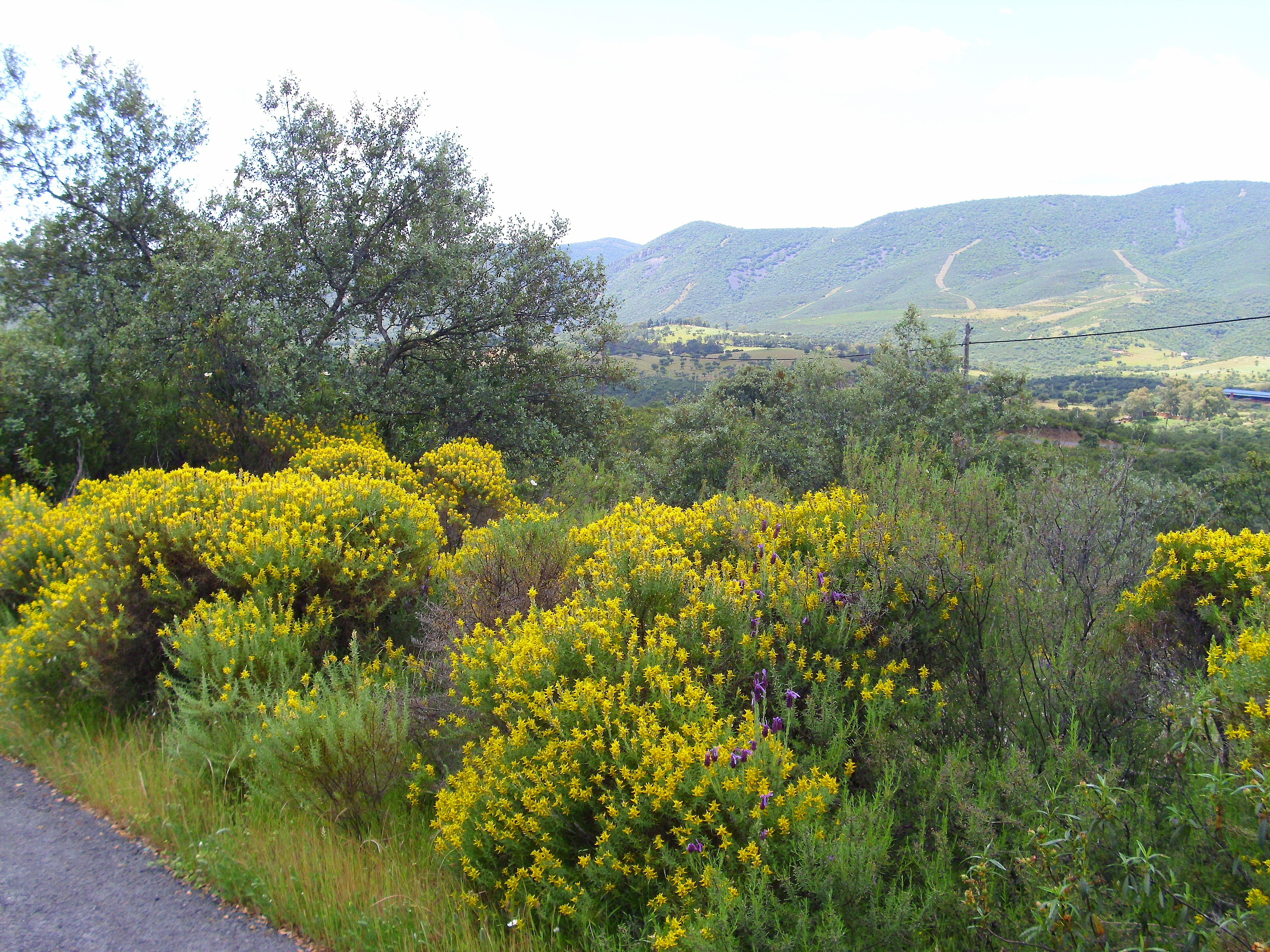 Genista hirsuta habitat, Sierra Madrona, Spain